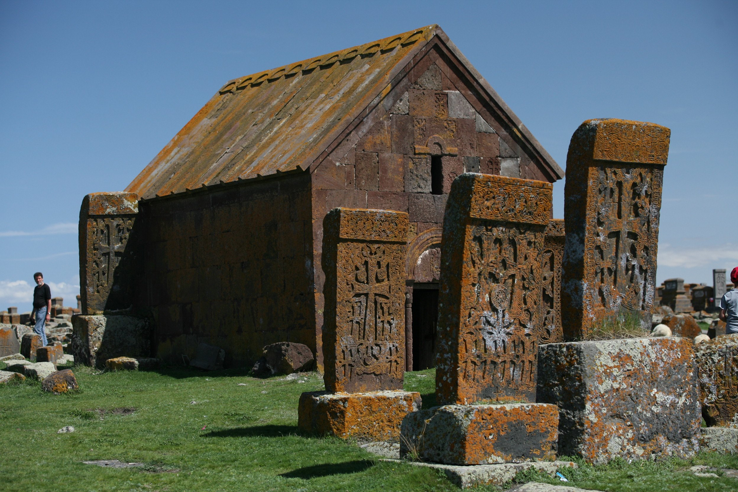 Noratus Khachkars